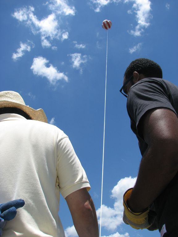 John Moore (right) and Dr. Jose Fuentes (Professor in the Dept. of Meteorology at Penn State University) operate a winch to raise and lower the moored balloon carrying instruments to obtain profiles of meteorological variables and pollutants in the atmospheric boundary layer.